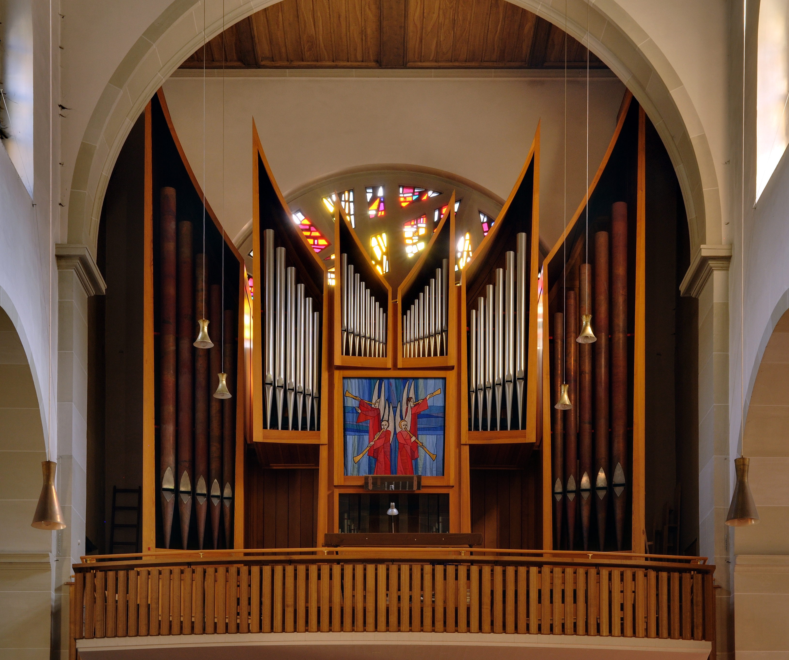 Todtnau: Saint John the Baptist Church, pipe organ from Rieger Orgelbau (constructed 1964)